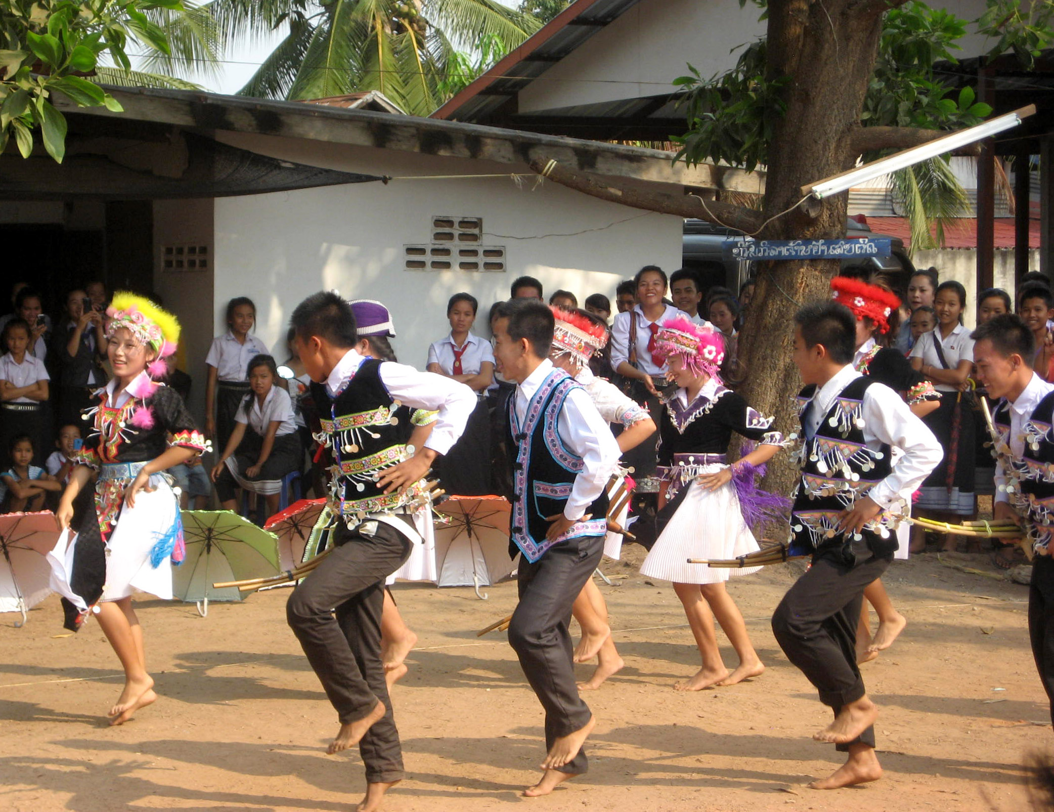 Hmong high school students perform a traditional dance at a high school on the outskirts of Vientiane, Laos. The Hmong are the 2nd-largest ethnic minority in Laos, making up about 8-10% of the population. In the past, most Hmong lived in remote mountain villages, often without schools, roads, or running water. Many are now moving into lowland villages, and are becoming more integrated into Lao life but still retain a strong sense of their own culture and heritage. This performance was done in appreciation to Big Brother Mouse, a literacy project that had visited the school that day with books and interactive educational activities.